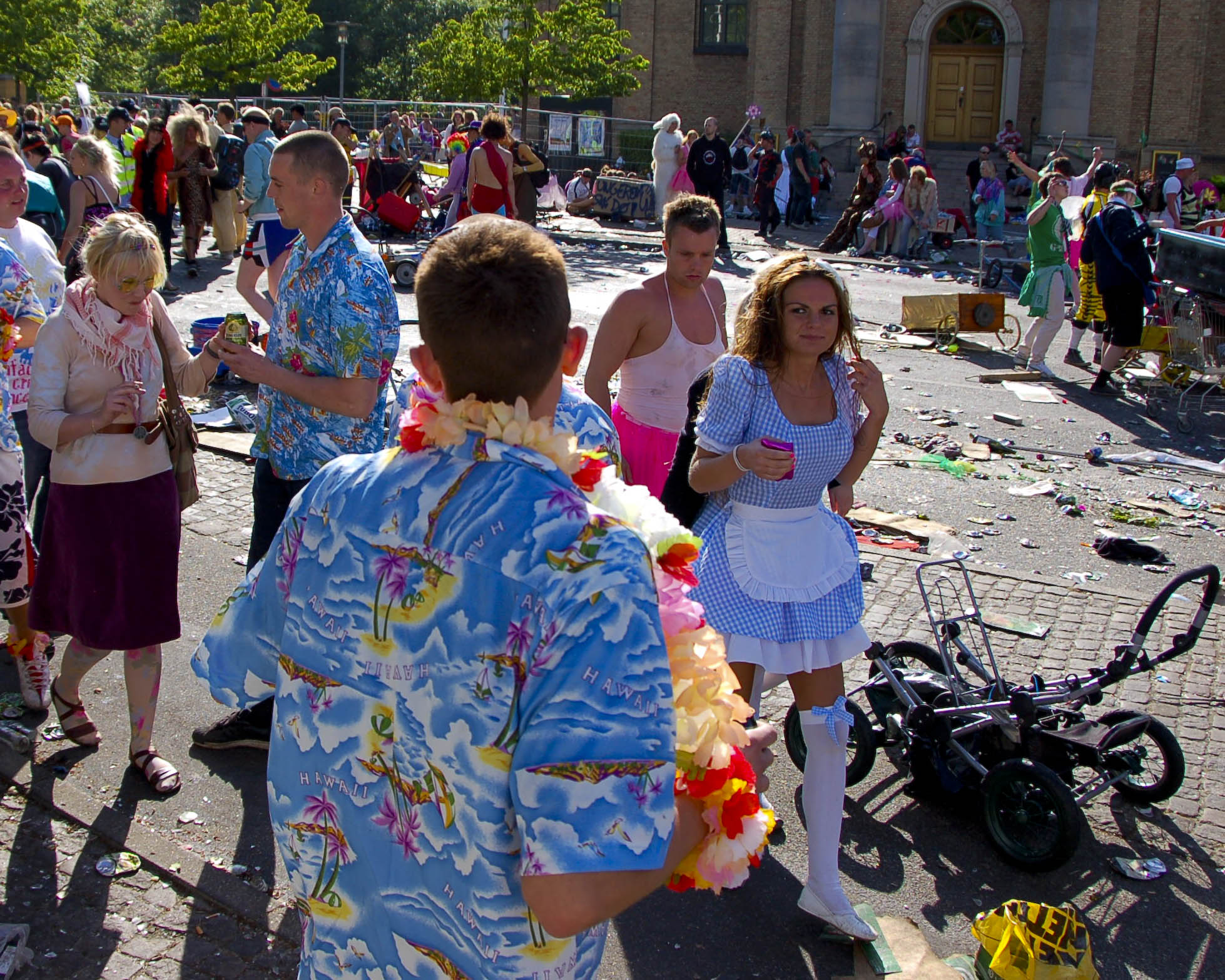 Picture from the event Aalborg Carnival in 2009